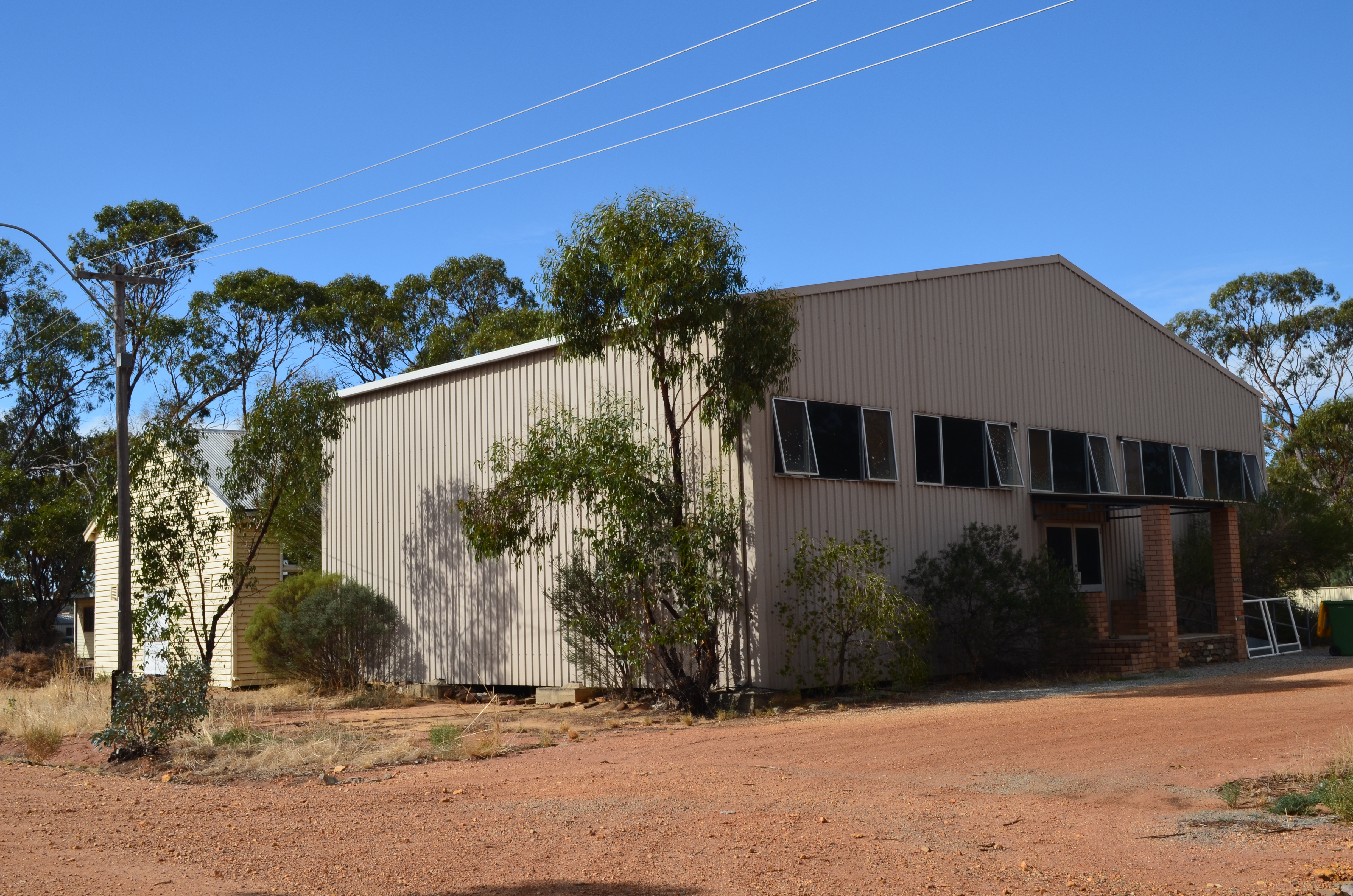 The community centre in the very small town of Coomberdale, Western Australia. The town's original Hall can be seen behind it at left.